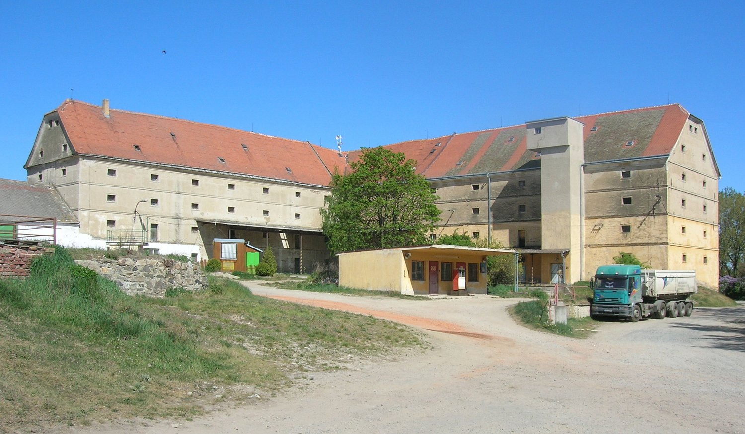 Jaroměřice nad Rokytnou. Granary built in 1648. South-west view